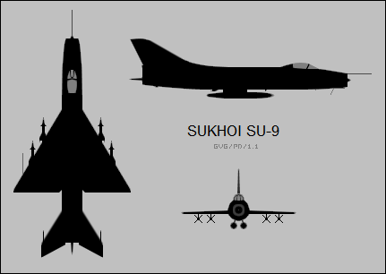 Su-9